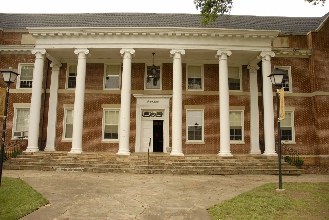 Rowe_Hall_2